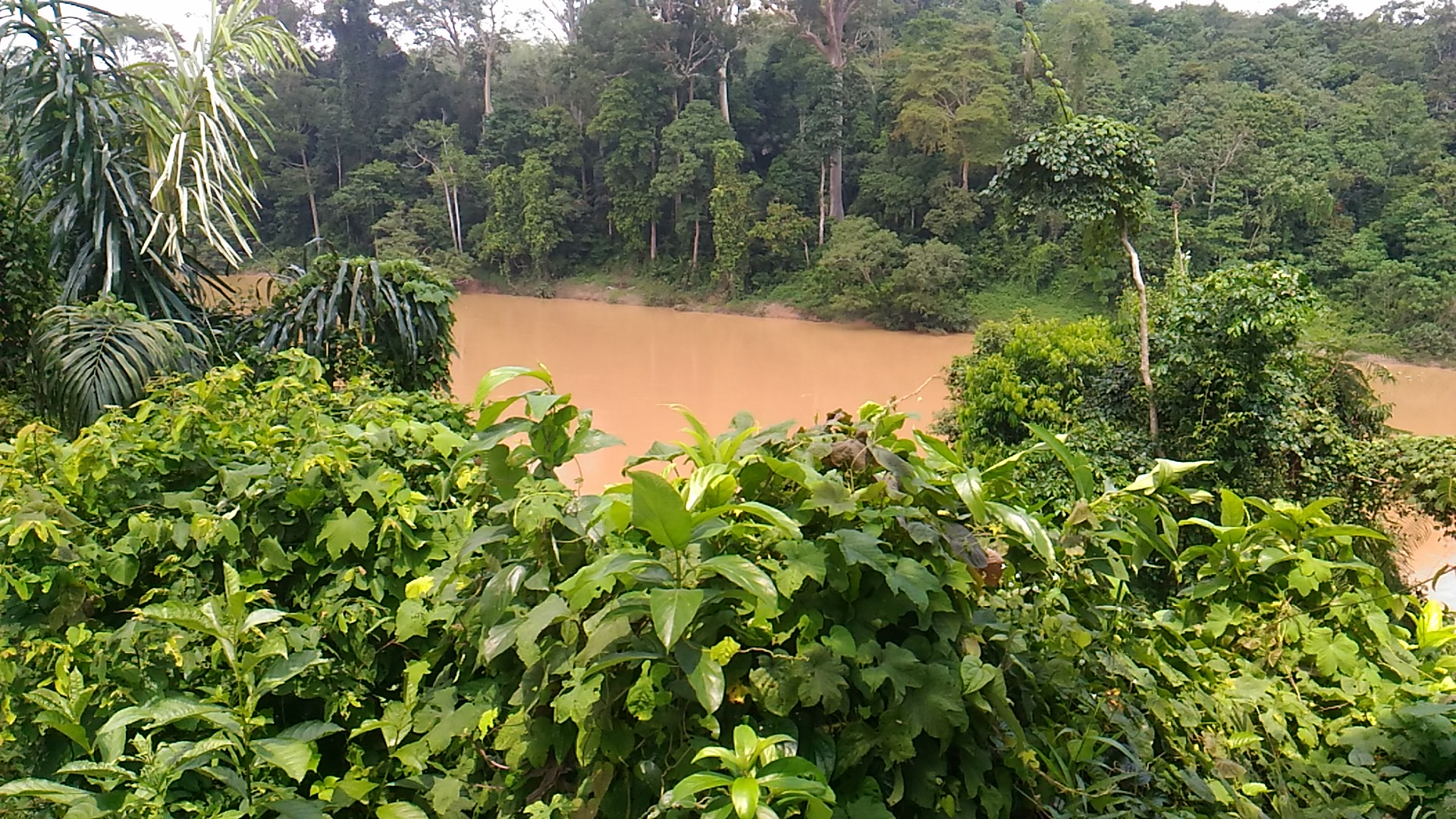 School by the Jelai River